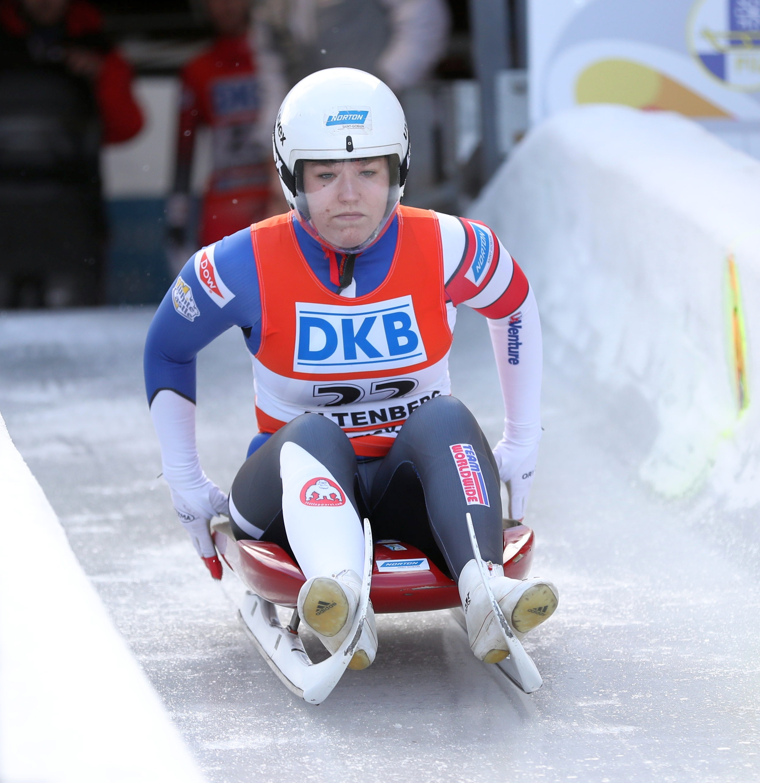 33rd Junior World Championship Luge, Altenberg 2018: Ashley Farquharson